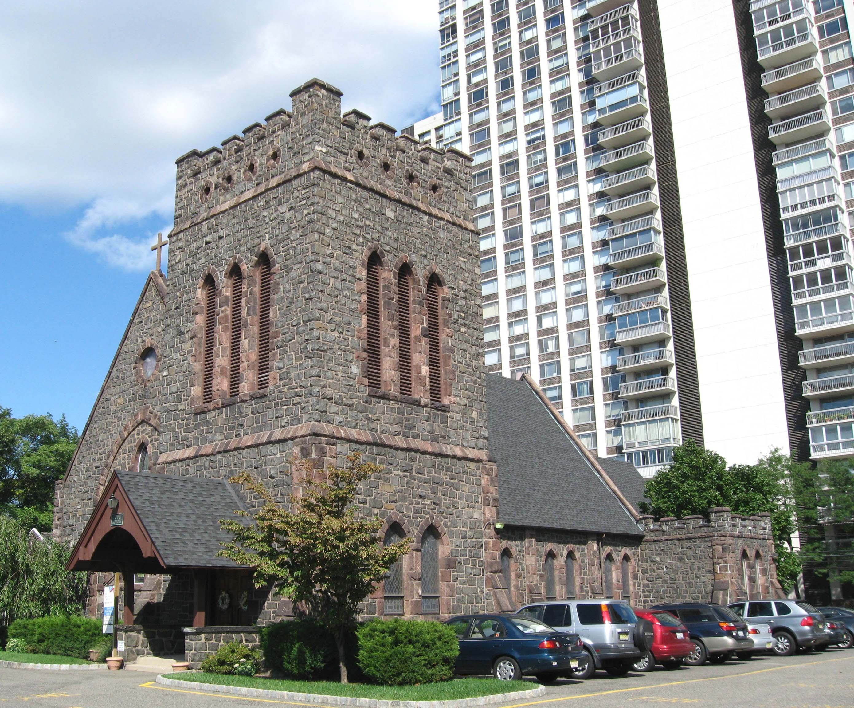 The Good Shepherd Episcopalian Church in Fort Lee, New Jersey. Looking northeast from Palisade Avenue.